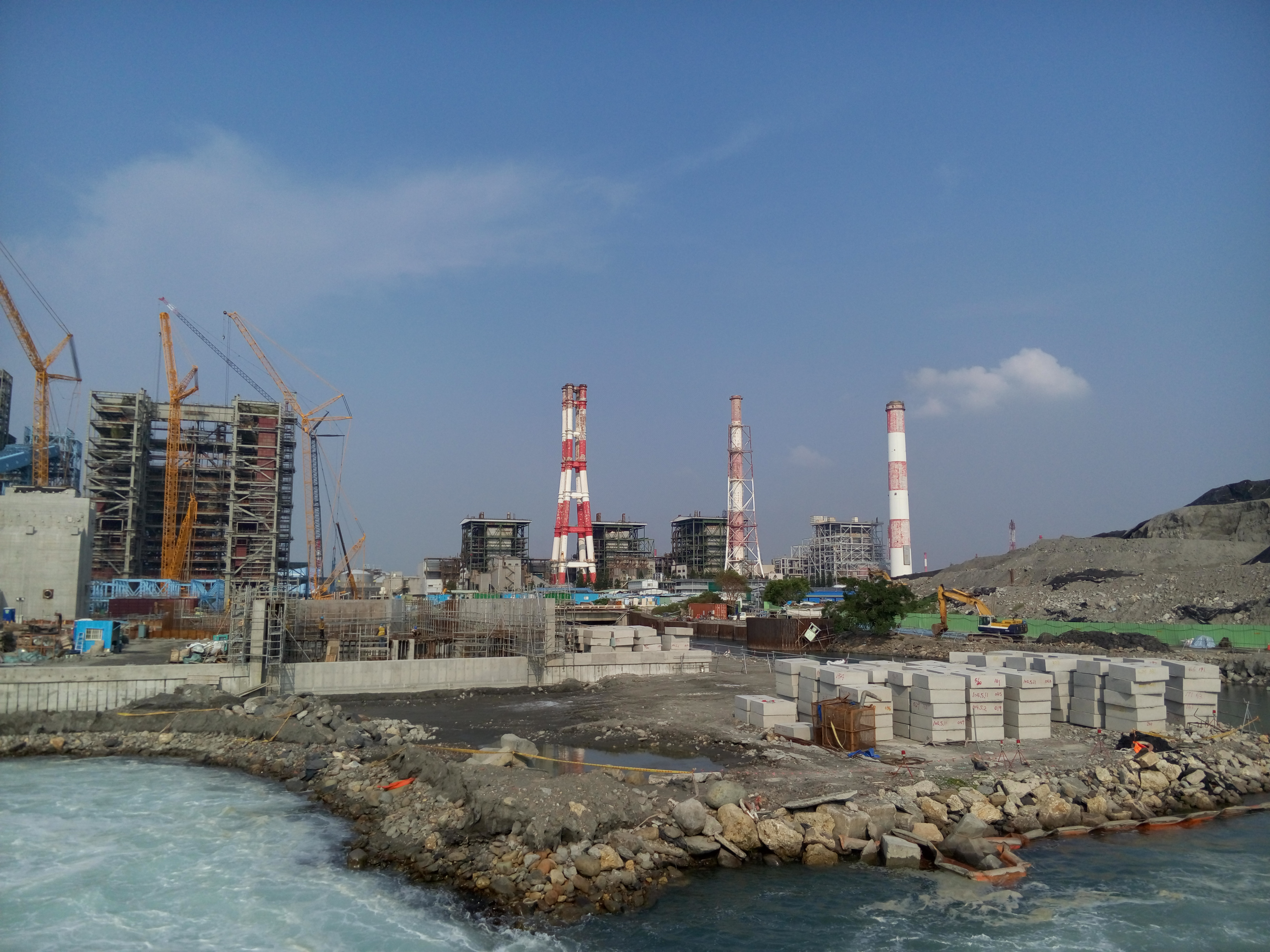 TaiPower Da-Lin Power Plant